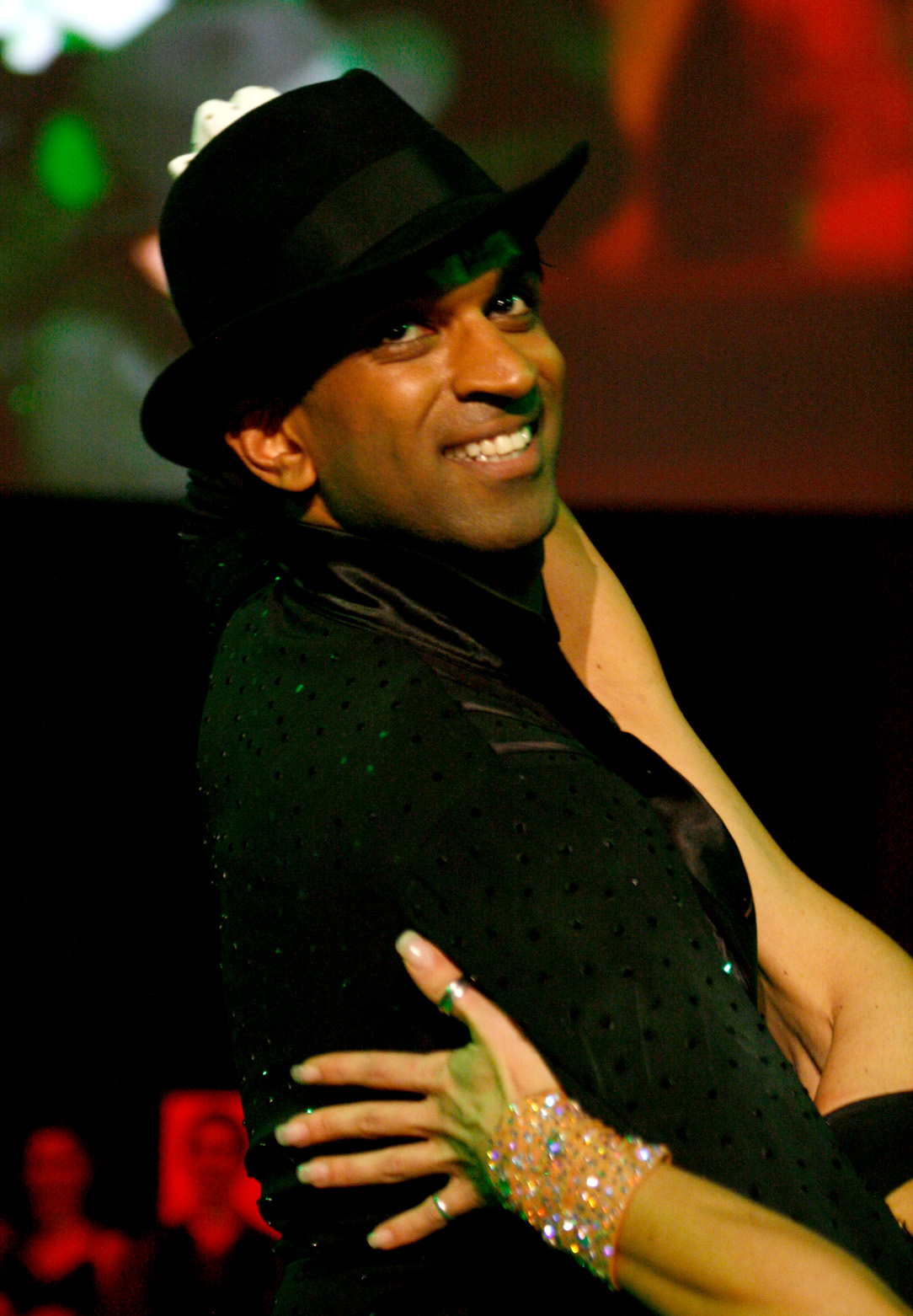 Ramesh Nair at the charity ball dancer against cancer (Hofburg Imperial Palace, Vienna)